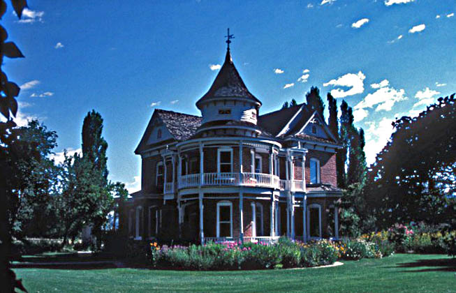 1909 HOWELL MANSION; TOWN IS WELL KNOWN FOR ITS VICTORIAN MANSIONS. OAKLEY IS VERY NEAR THE CITY OF ROCKS